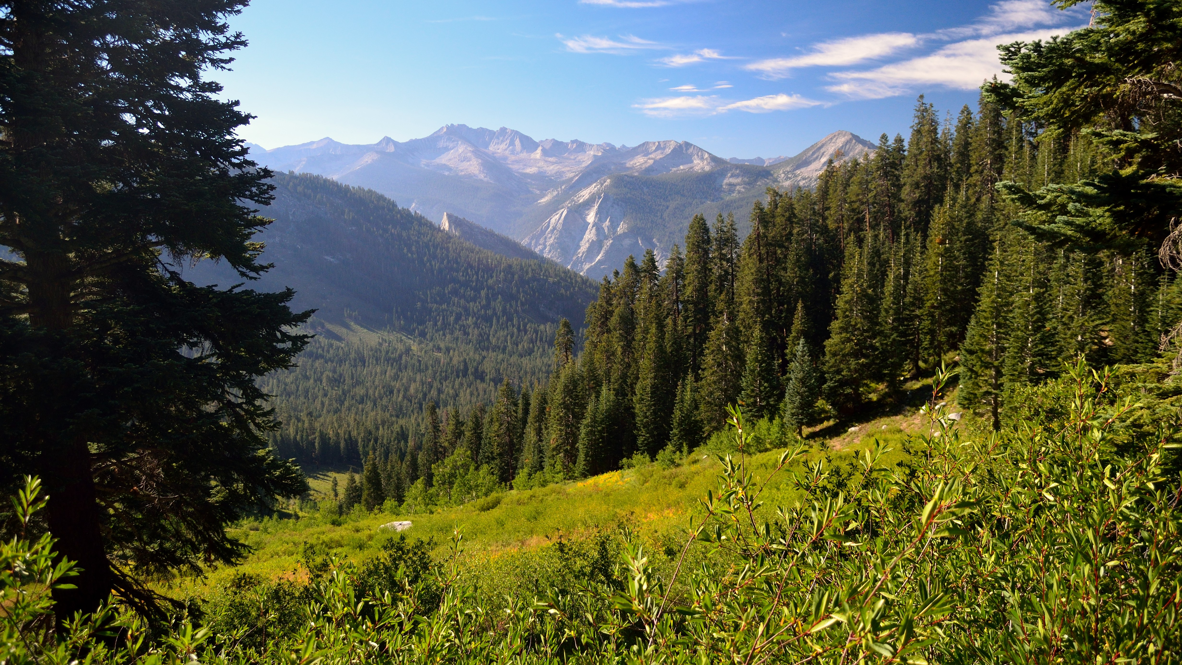 View along Copper Creek Trail, Kings Canyon National Park, California